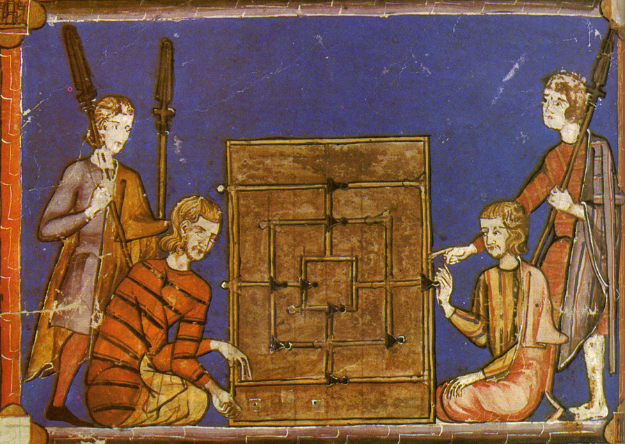 Men playing Nine Men's Morris with dice, pictured in Libro de los juegos.